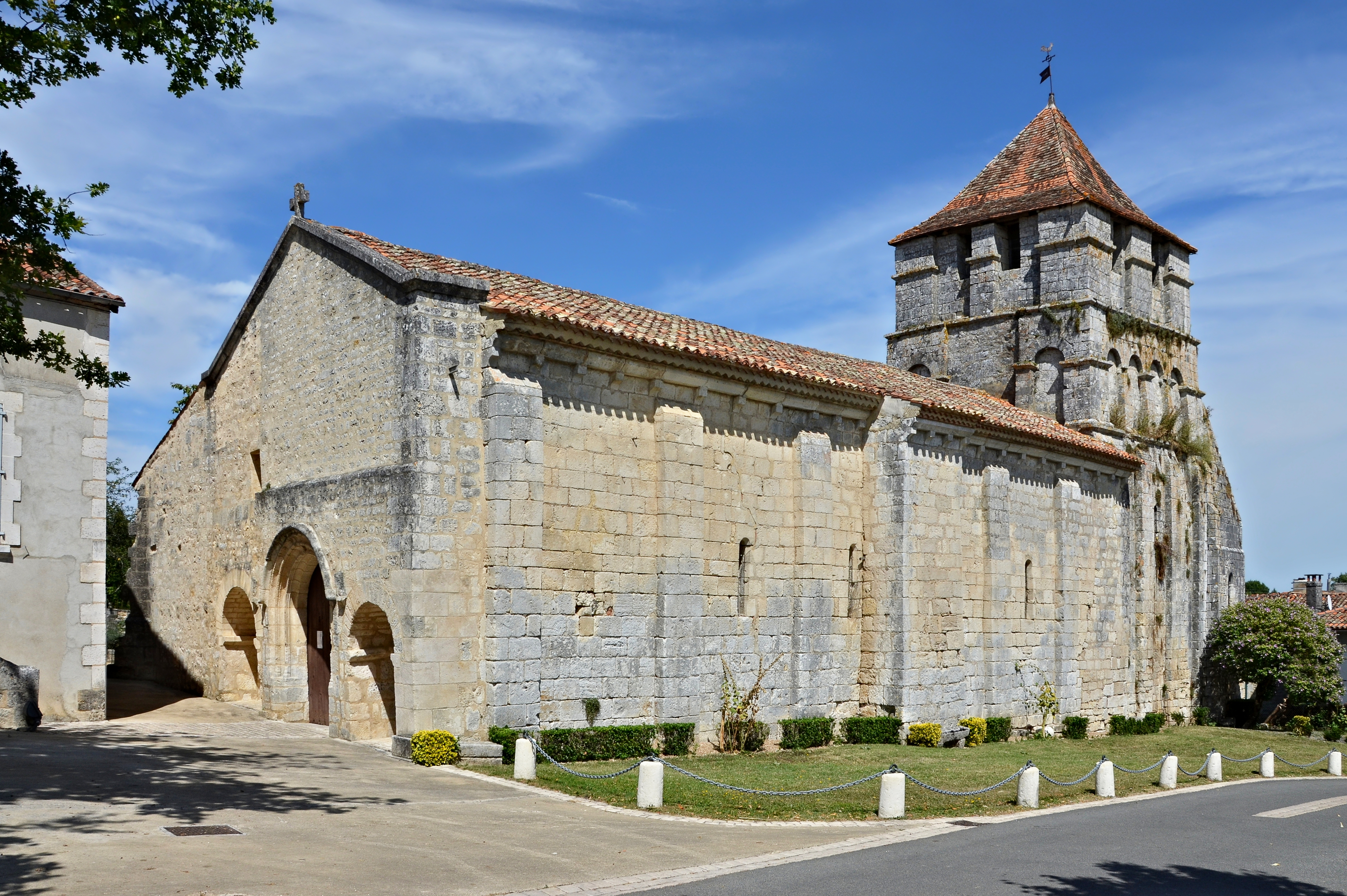 Church (12th, 15th and 16th centuries) of Grassac, Charente, France.